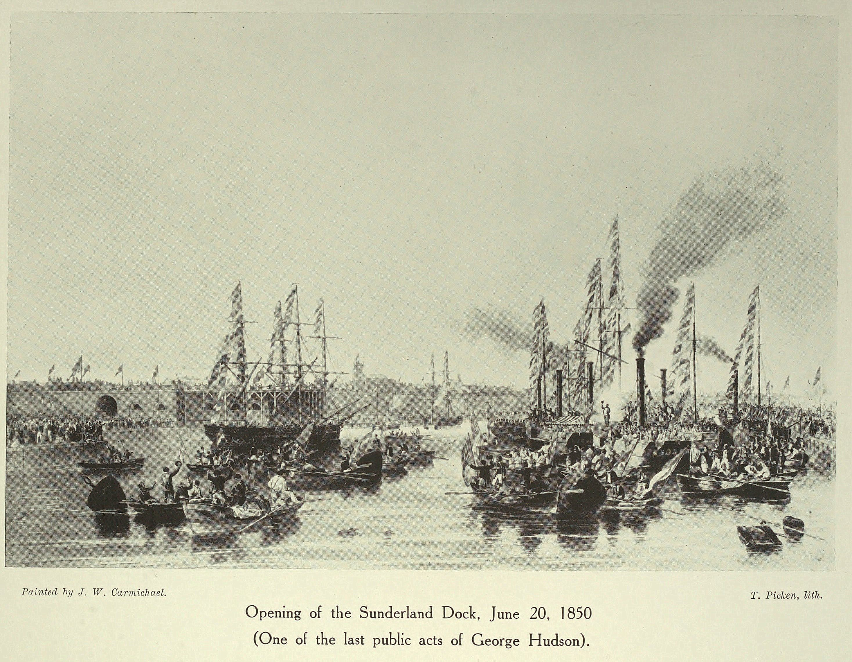 See list of illustrations in souce pages ix to xvi Descriptions are associated with images, also check index for additional text